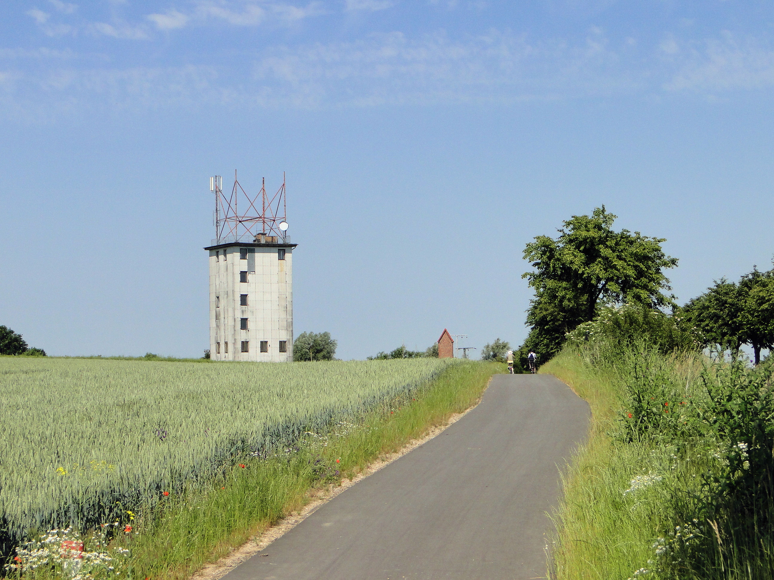 Building used as radio tower at hill Hütterberg between Herren Steinfeld and Gottmannsförde, district Nordwestmecklenburg, Mecklenburg-Vorpommern, Germany